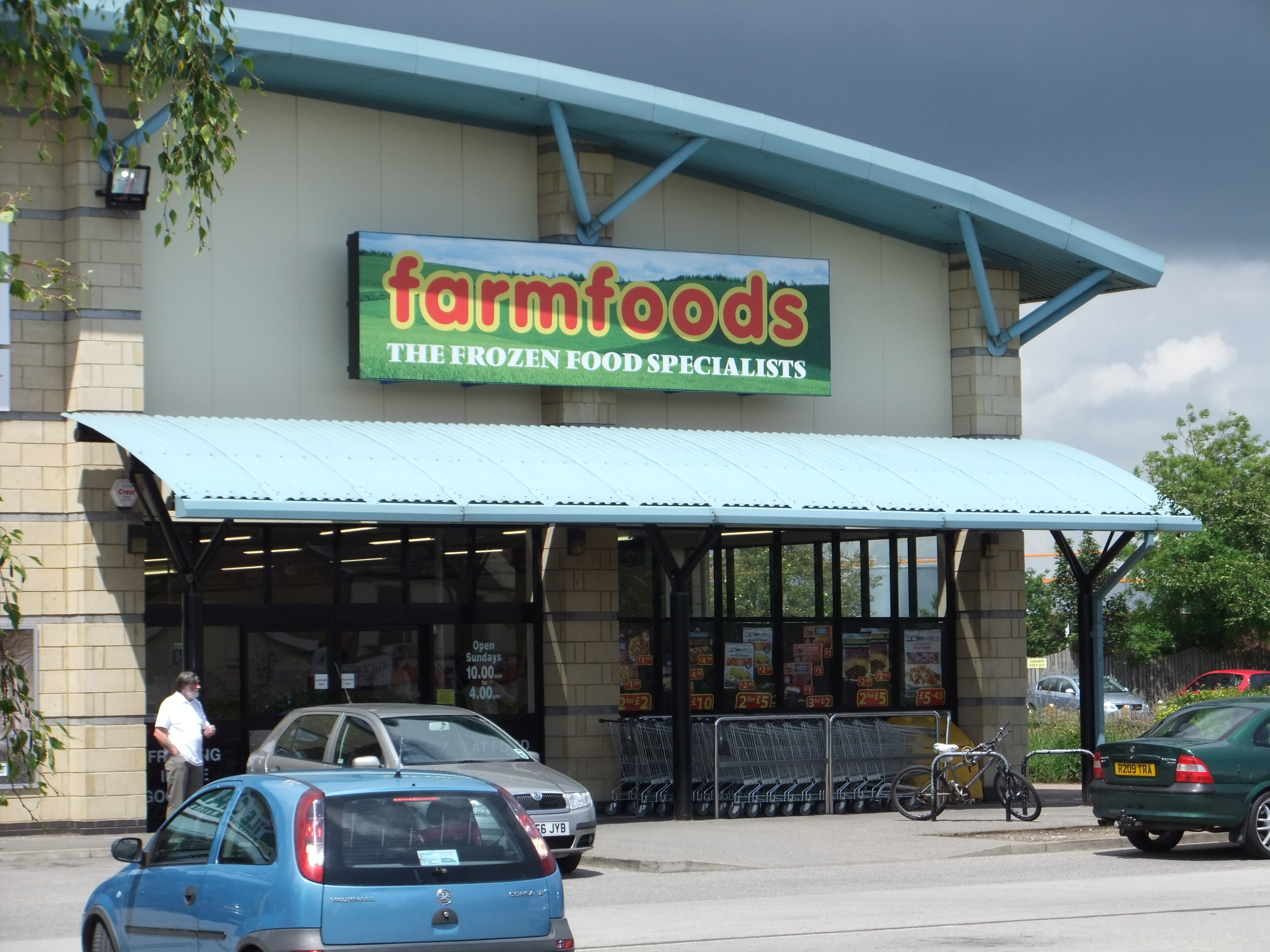 Farmfoods supermarket, Tritton Road, Lincoln, England.